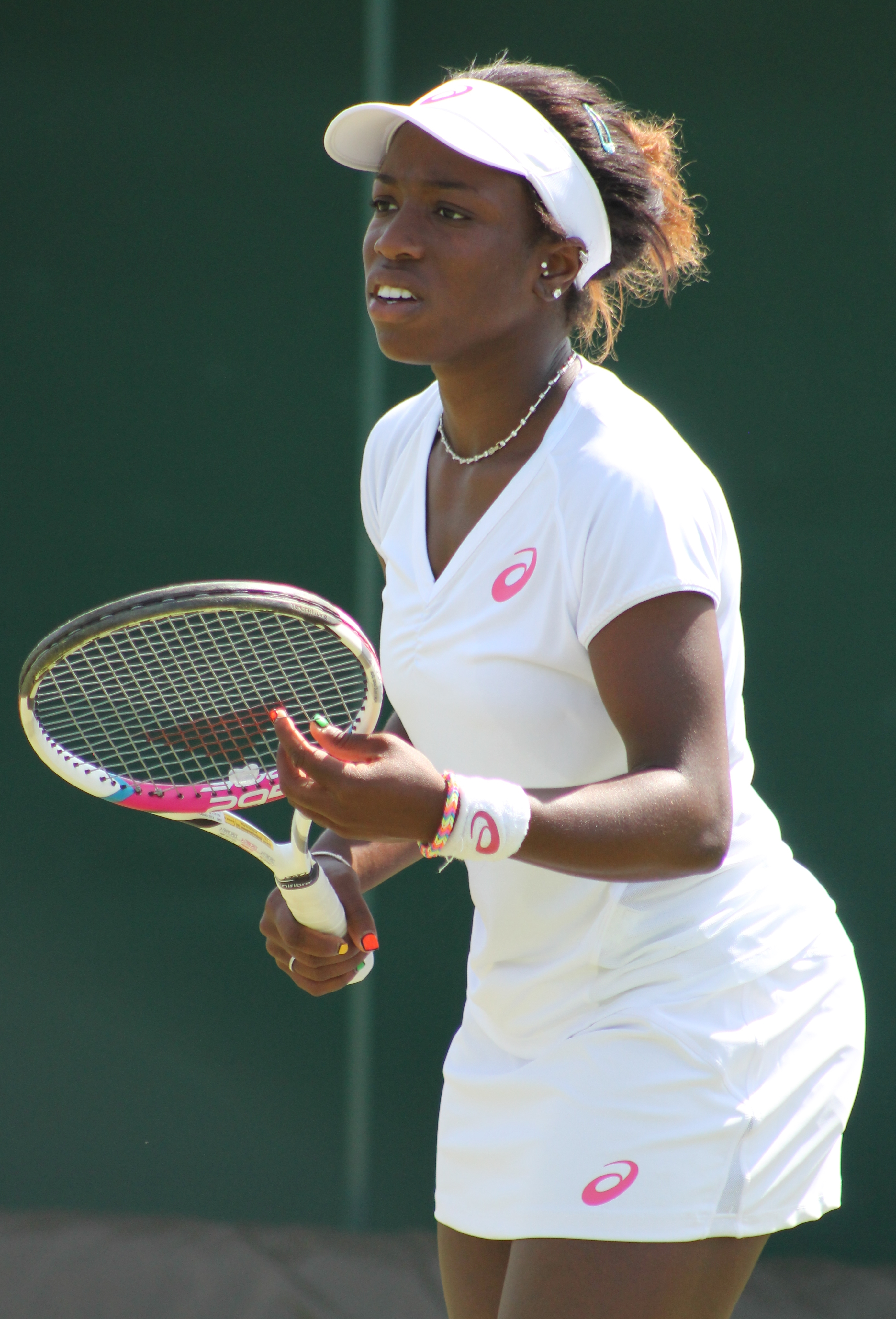 Vickery WMQ14 (23)